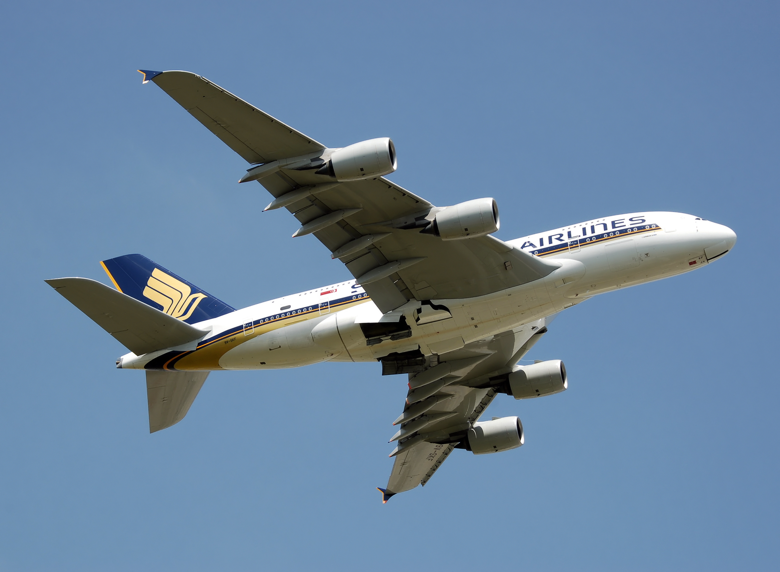 Singapore Airlines Airbus A380 (9V-SKF) takes off from London Heathrow Airport, England. The main and nose undercarriage doors have not yet retracted.